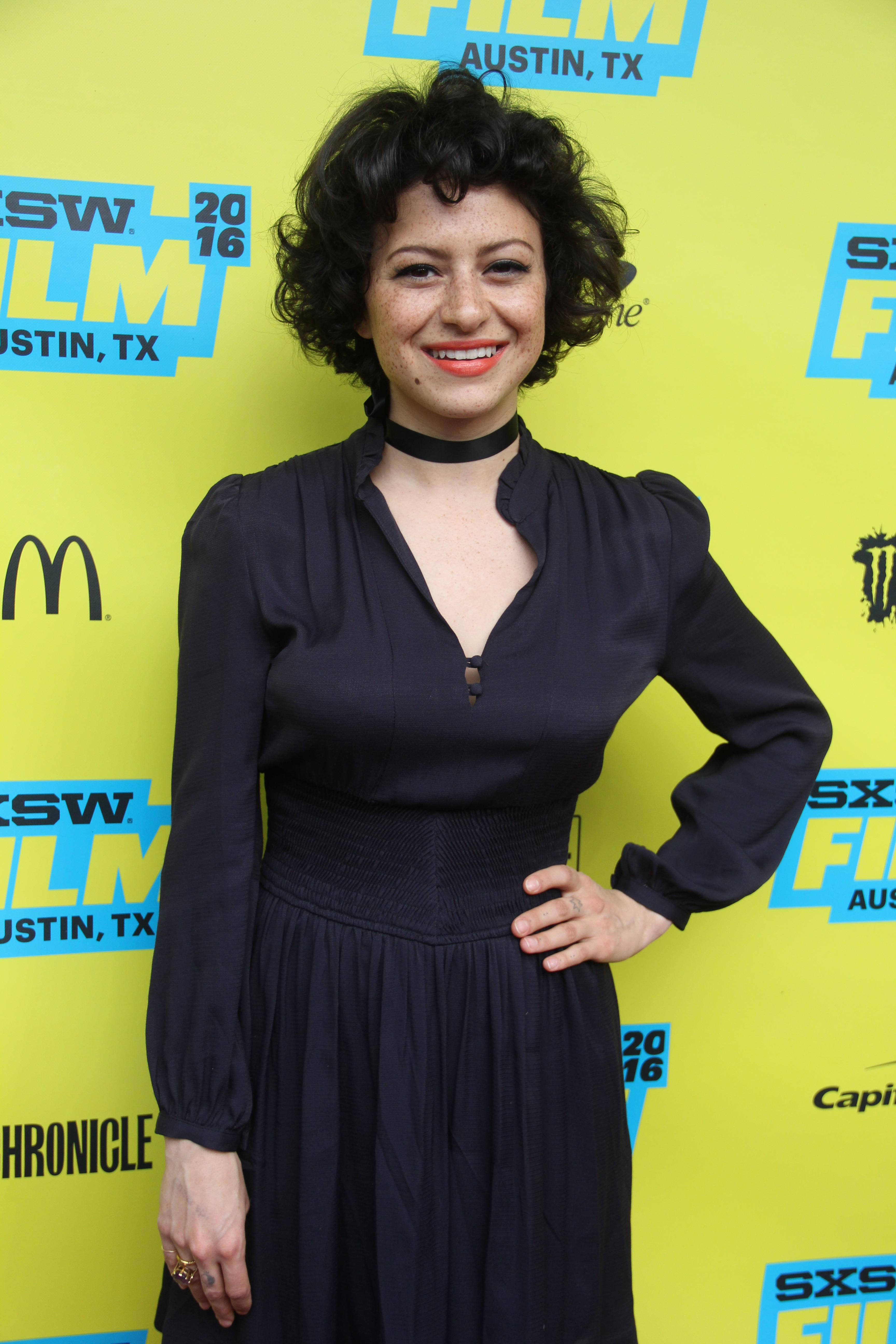 Alia Shawkat at the premiere of Pee-Wee's Big Holiday. Taken at SXSW 2016.